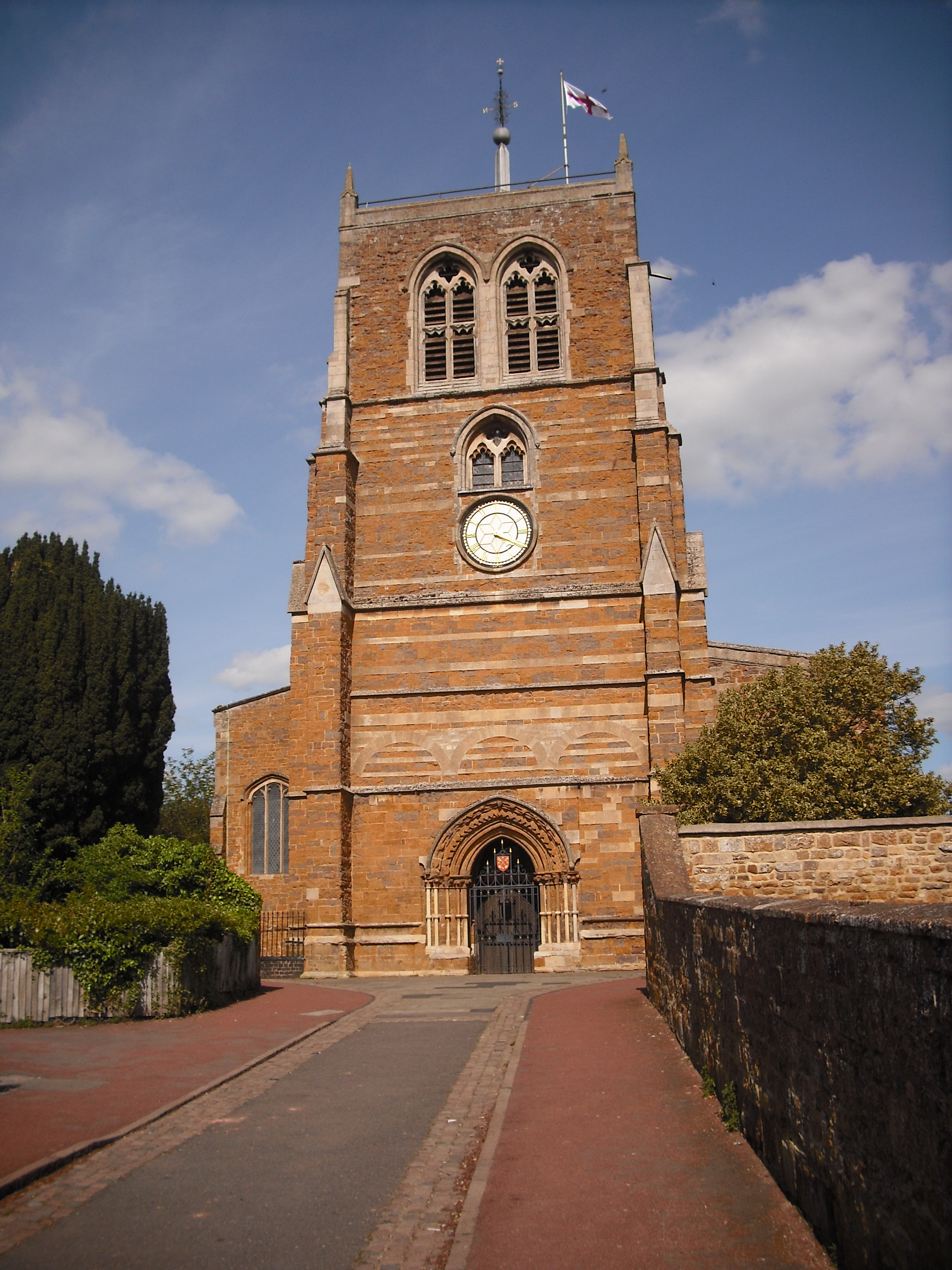 Church of England parish church of the Holy Trinity, Rothwell, Northamptonshire: view from the west, showing the 13th/14th-century west tower